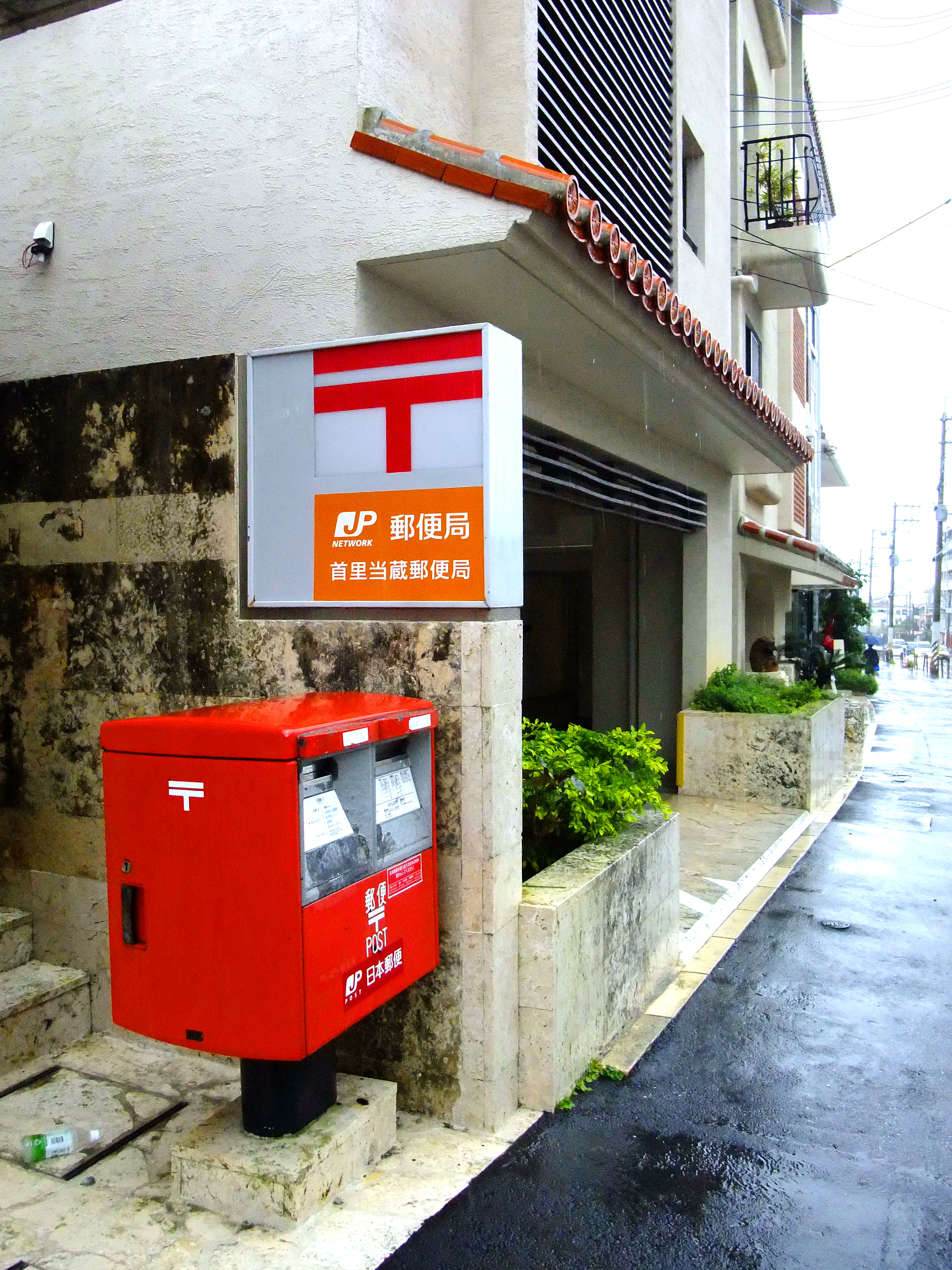 A Japan Post Postbox in Shuri, Okinawa, Japan.